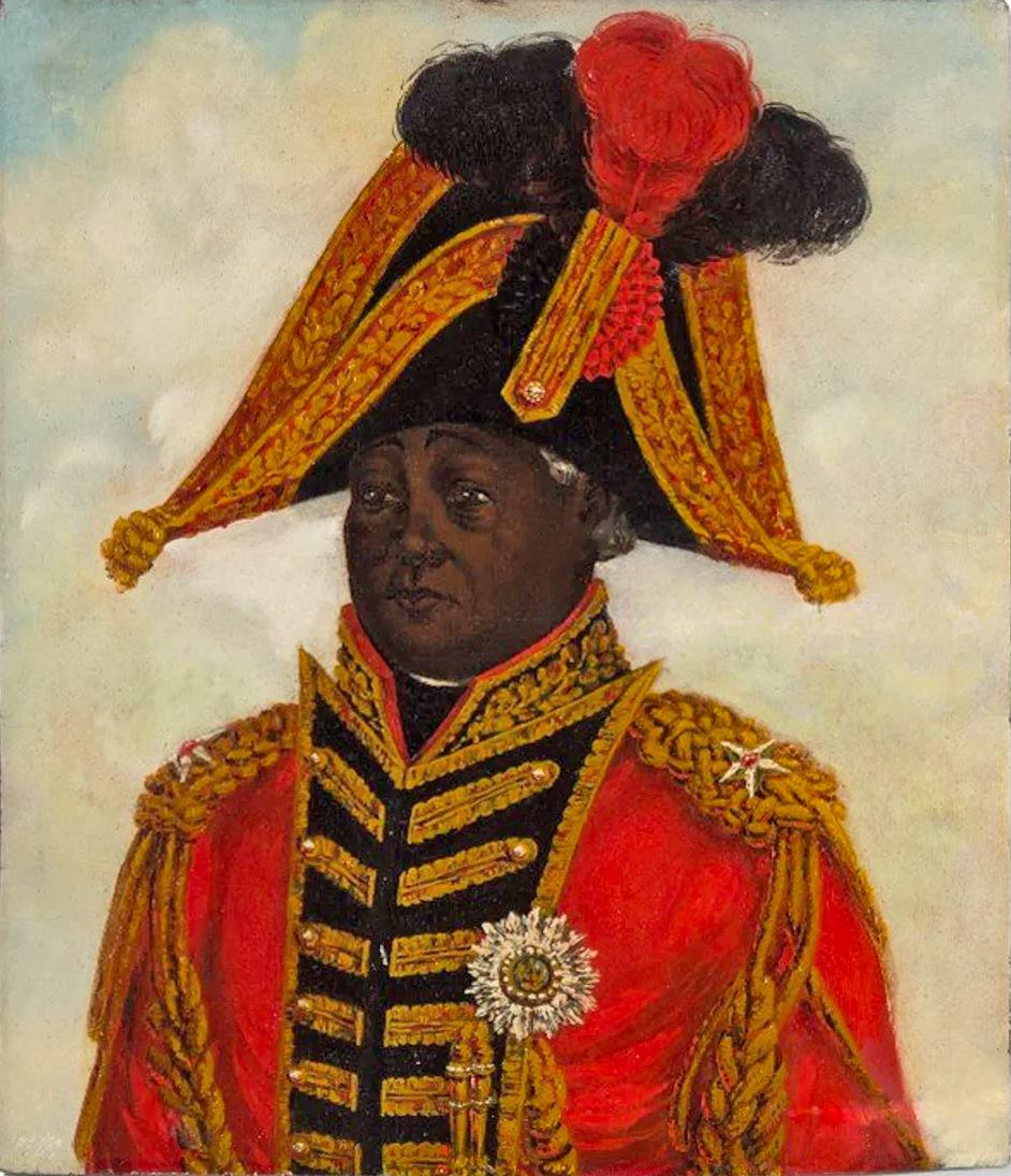 Oil on panel, Cap-Henry, early 19th century. Probably by Johann Gottfried Eiffe